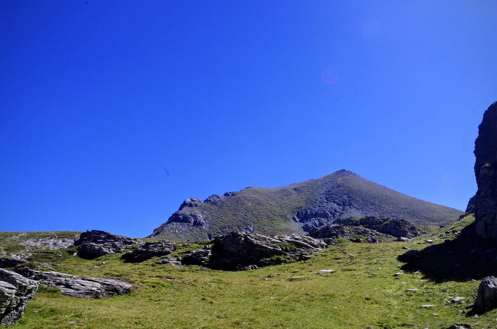 Rudoka peak on Shar Mountain, Macedonia